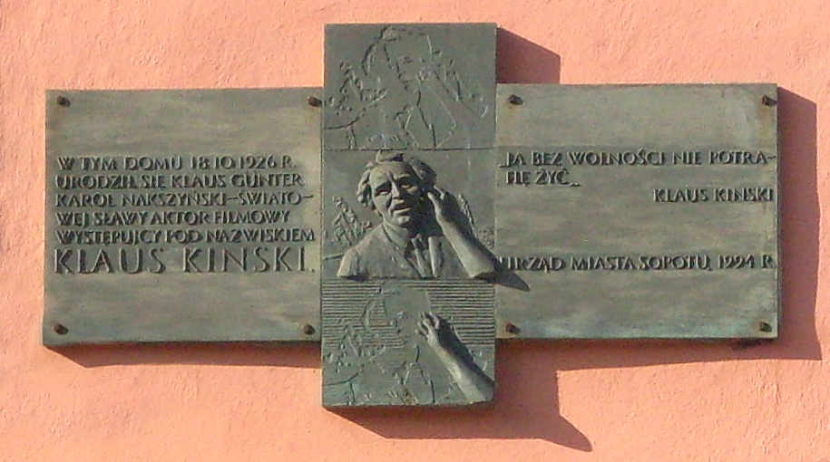 Plaque at Klaus Kinski's birthplace in Sopot. Localisation at Tadeusza Kościuszki 10A Street.